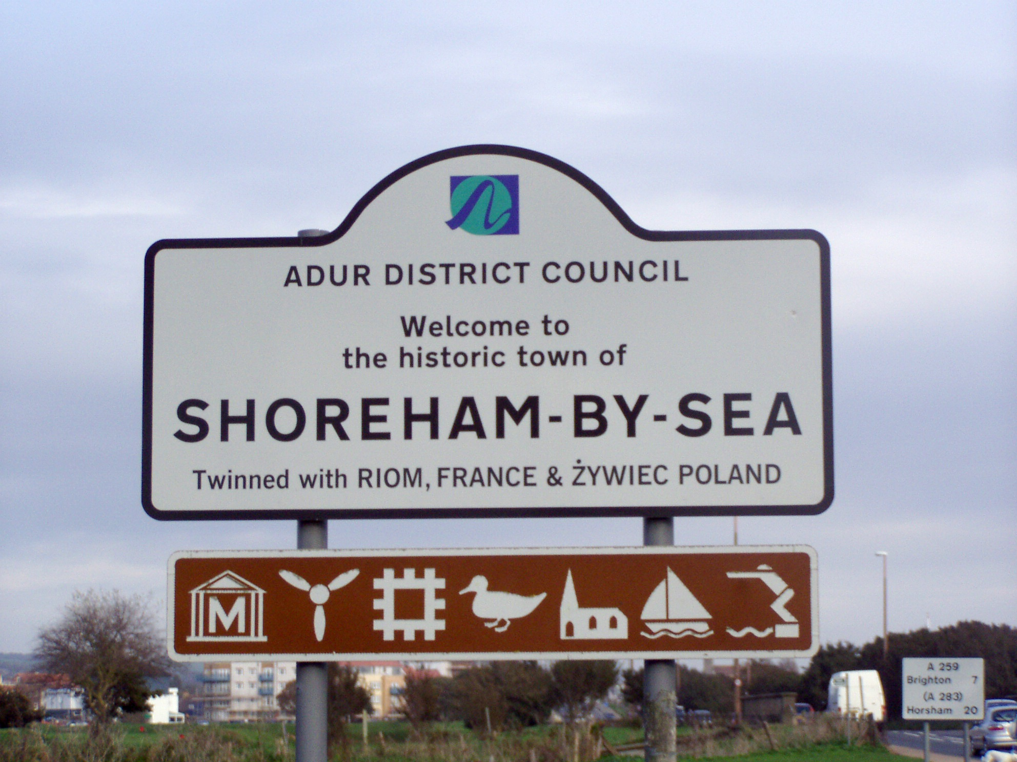 Welcome sign from Shoreham